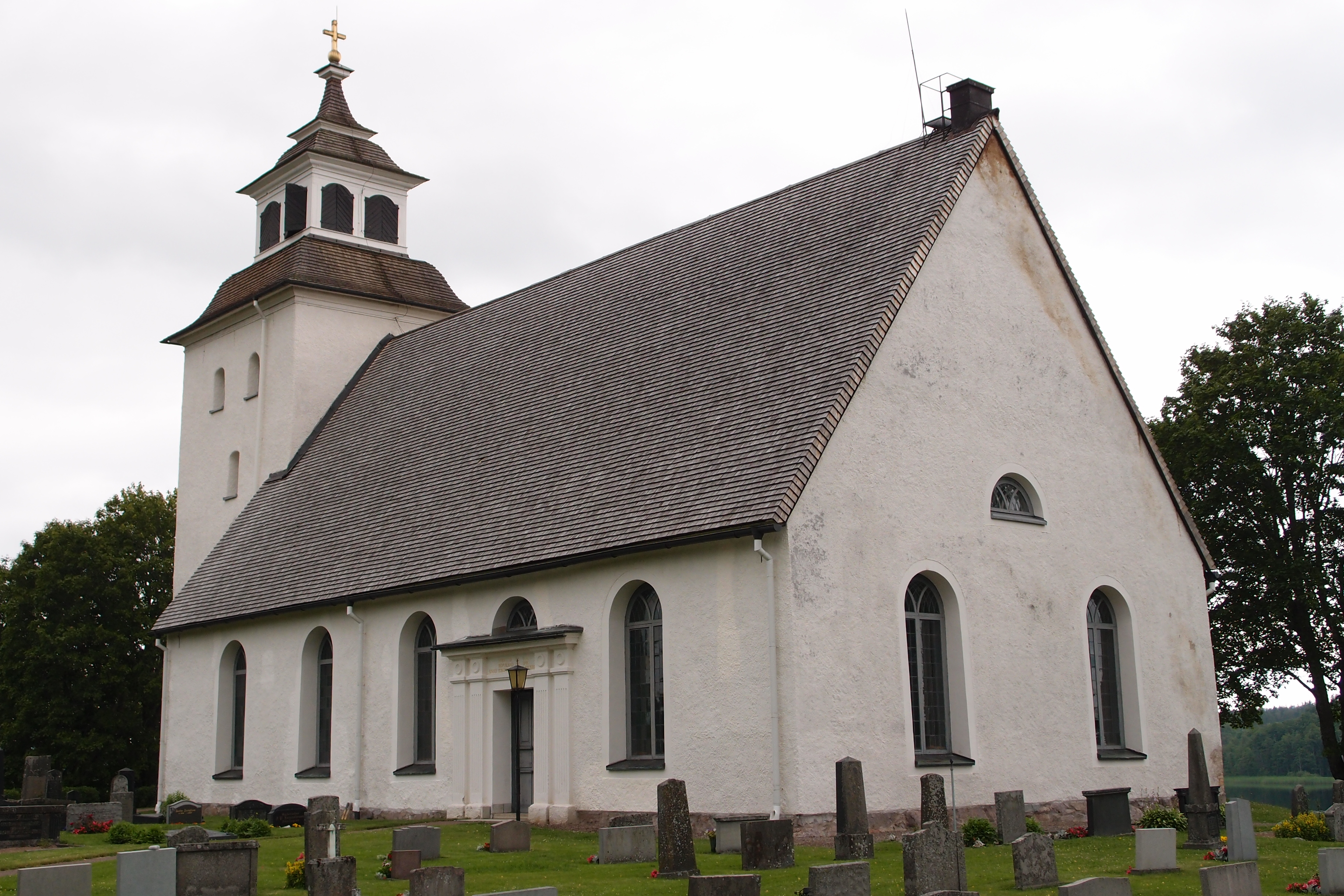 Järeda Church